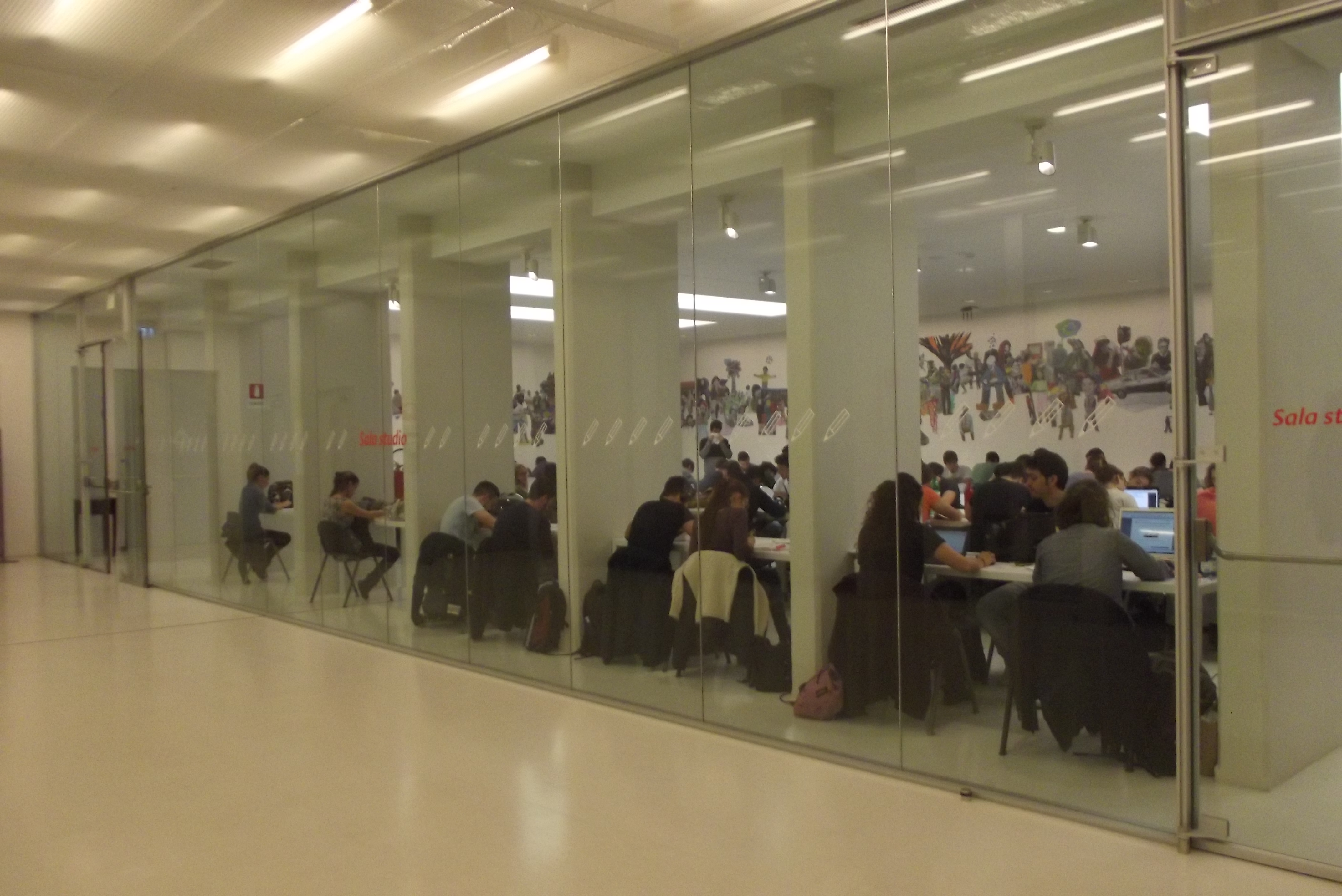 The Centro culturale Il Pertini's study hall